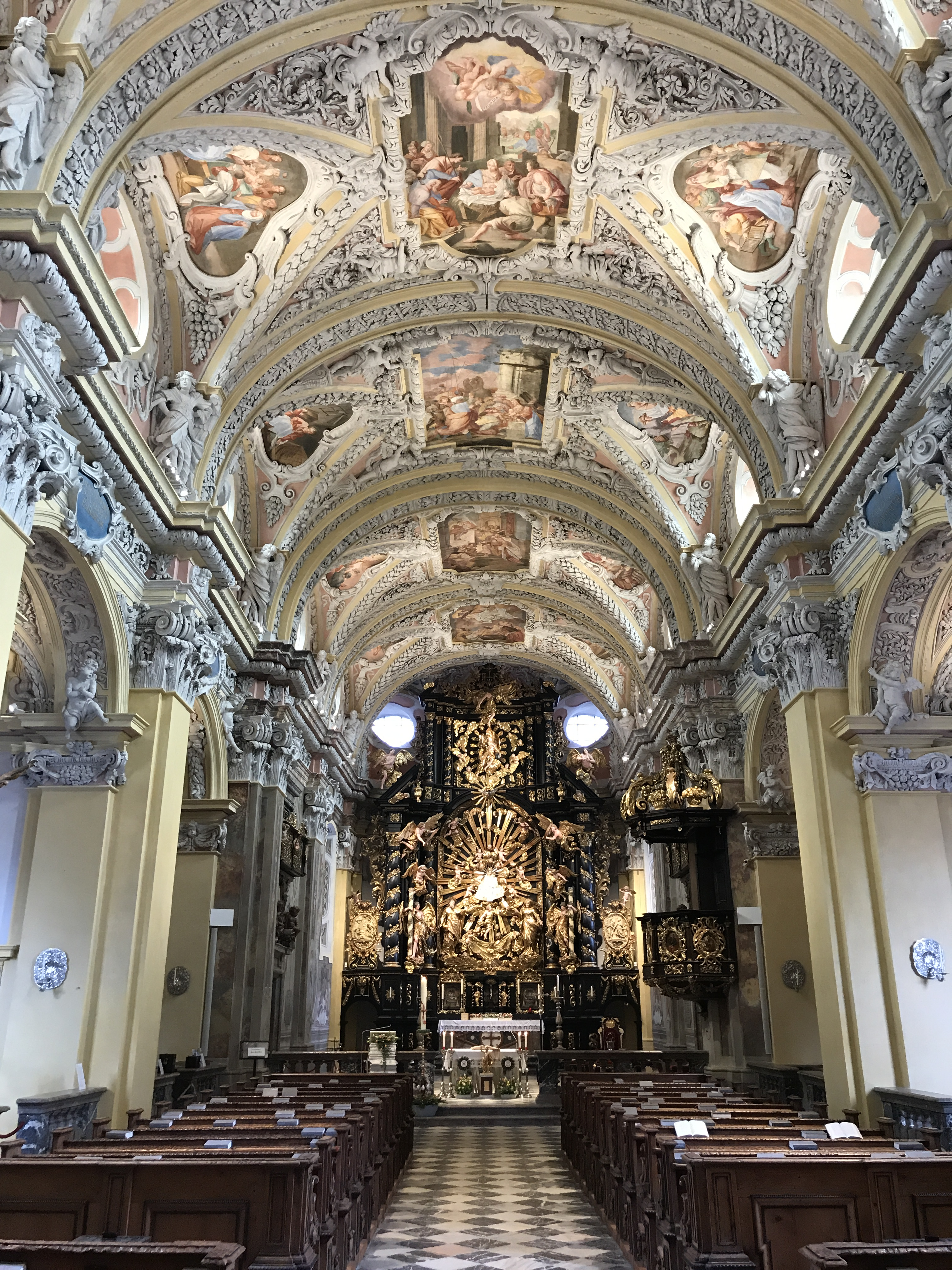 Sanctuary Frauenberg an der Enns (Austria)